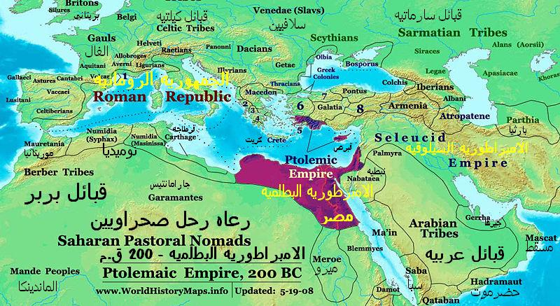 The Ptolemaic Kingdom of Egypt in 200 BC.